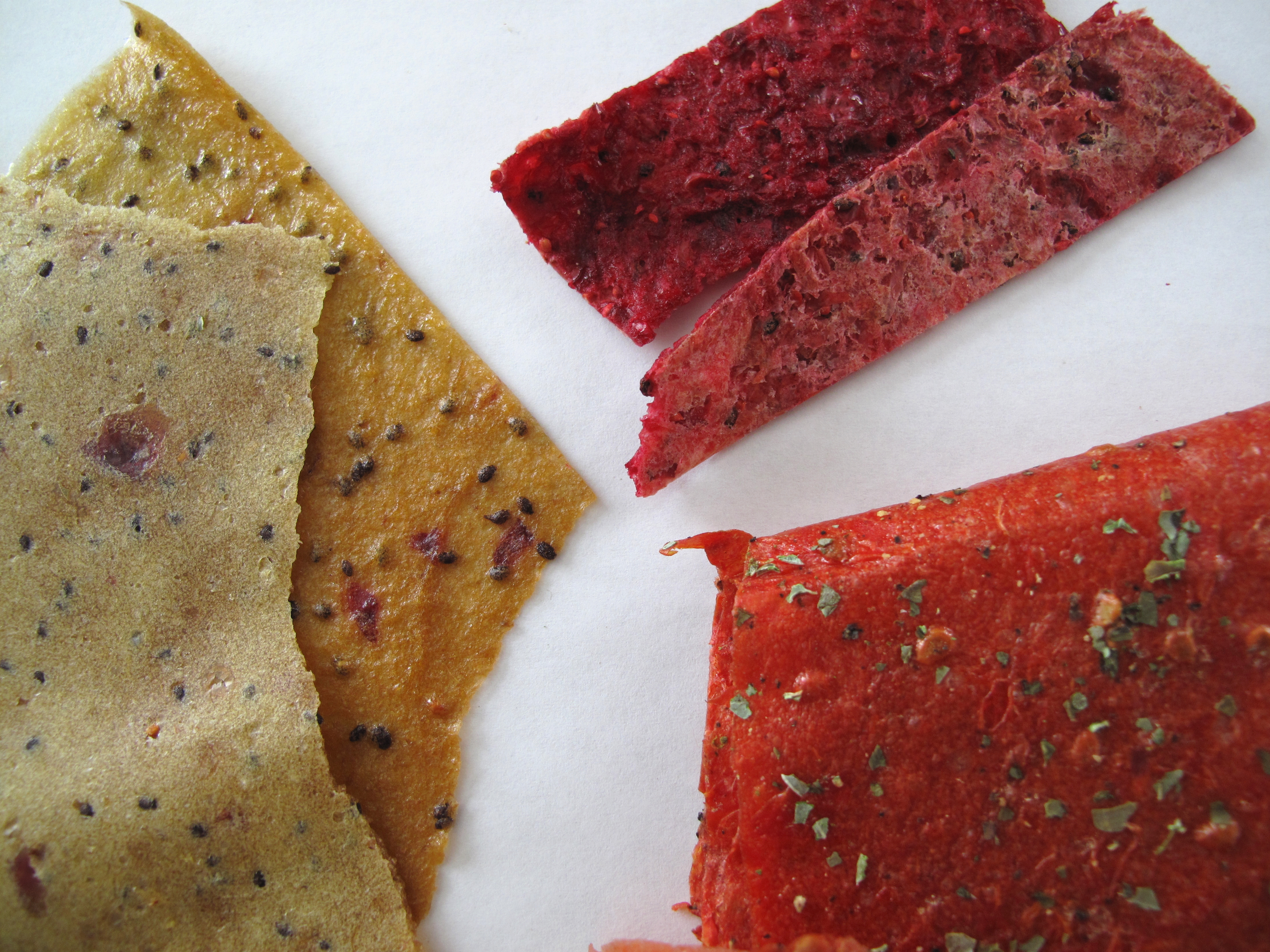 Fruits Leathers